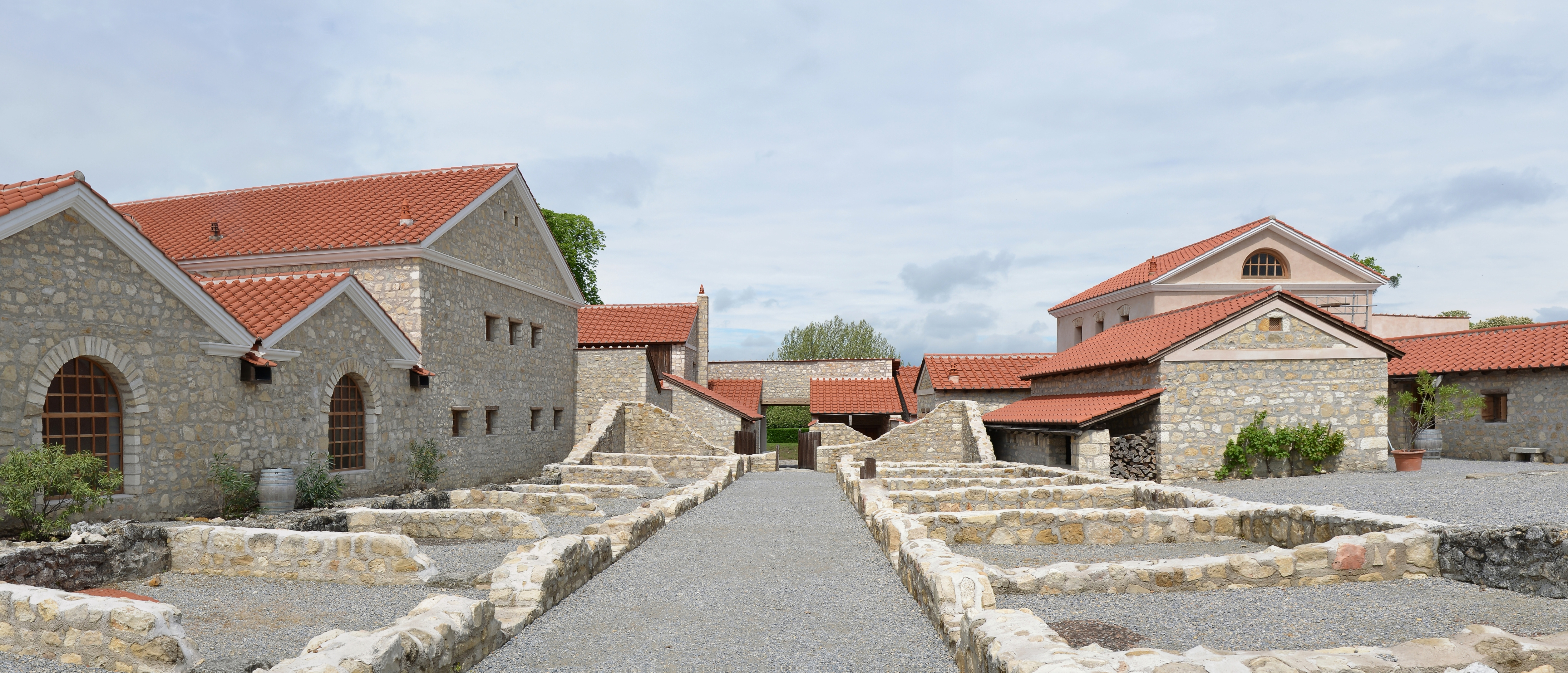 Open air museum Petronell, Austria